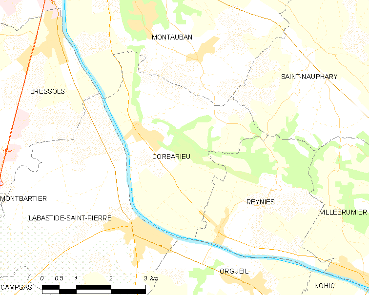 Map of French municipality Corbarieu